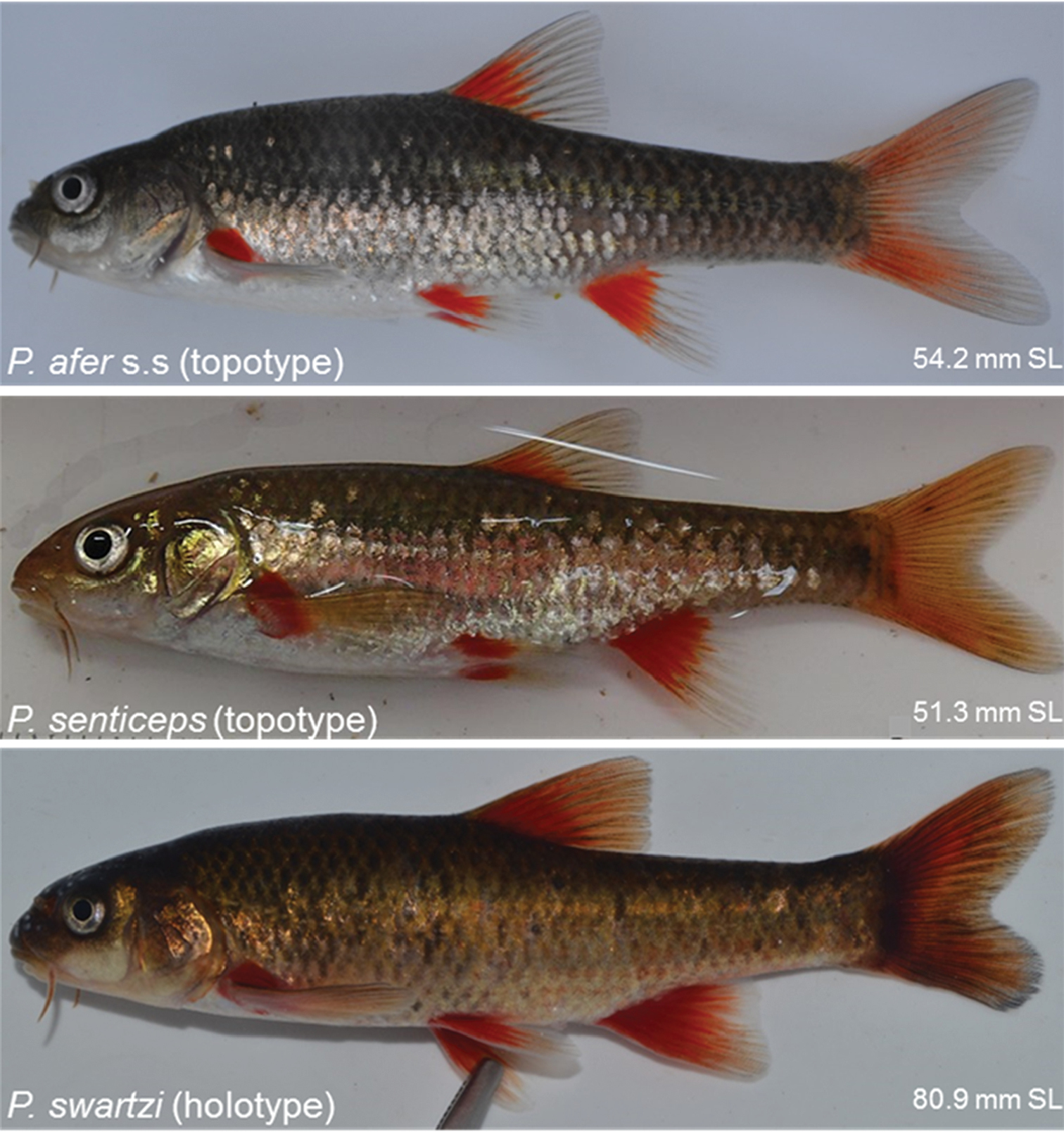 Live colours of Pseudobarbus afer s.s (SAIAB 203790) from the Waterkloof River, Swartkops River system, P. senticeps (RS17AL01) from the source pool in the Upper Krom River system and P. swartzi sp. n. (SAIAB 203792) from a tributary of the Wabooms River, Gamtoos River system.